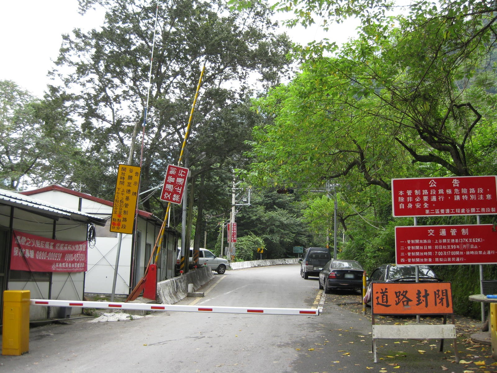 Shanguguan Lock Gate employed to control foot and vehicle traffic,and it located at 37Km on the Taiwan Provincial Highway No.8.